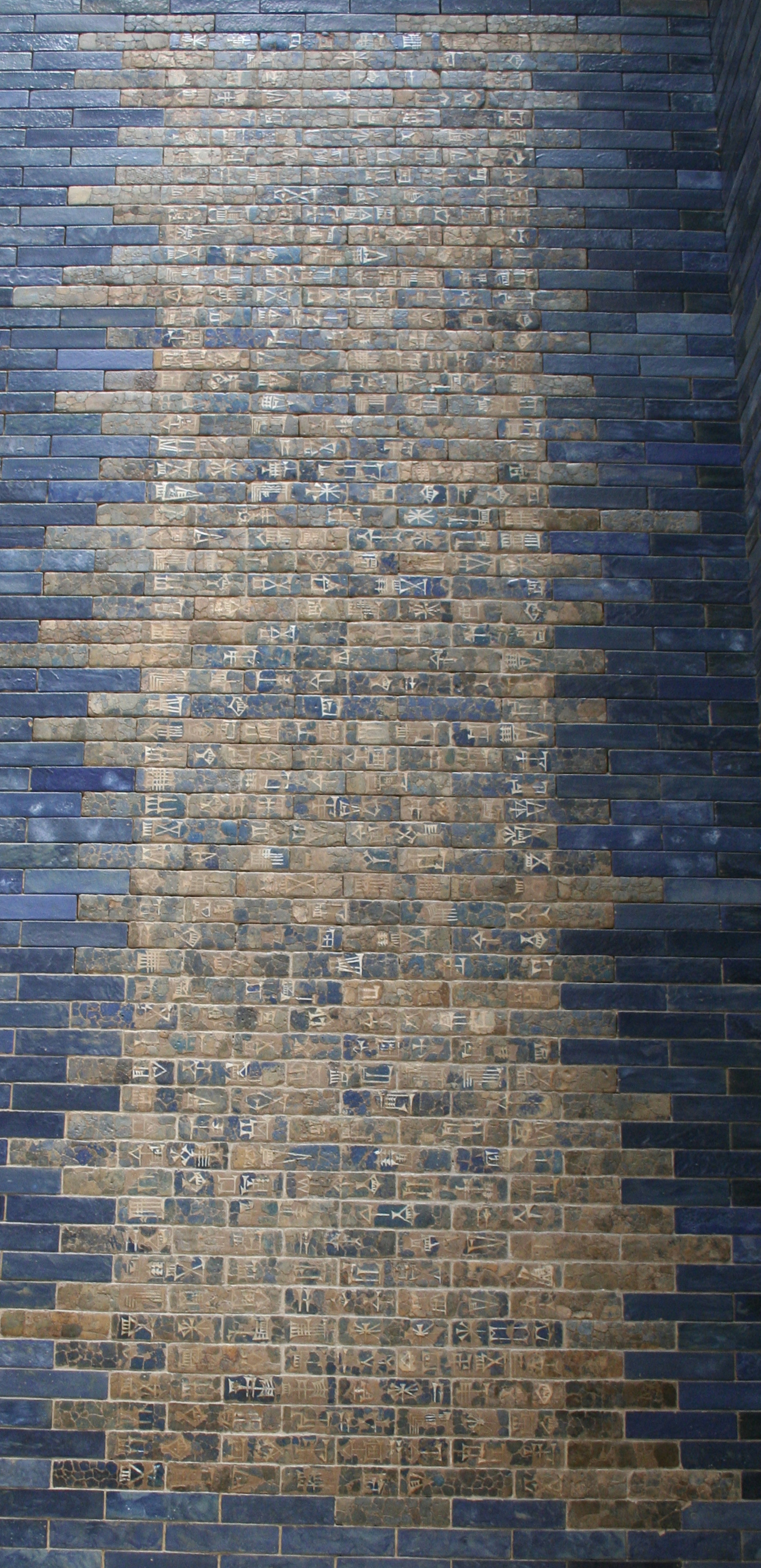 Vorderasiatisches Museum (Near East Museum), Berlin